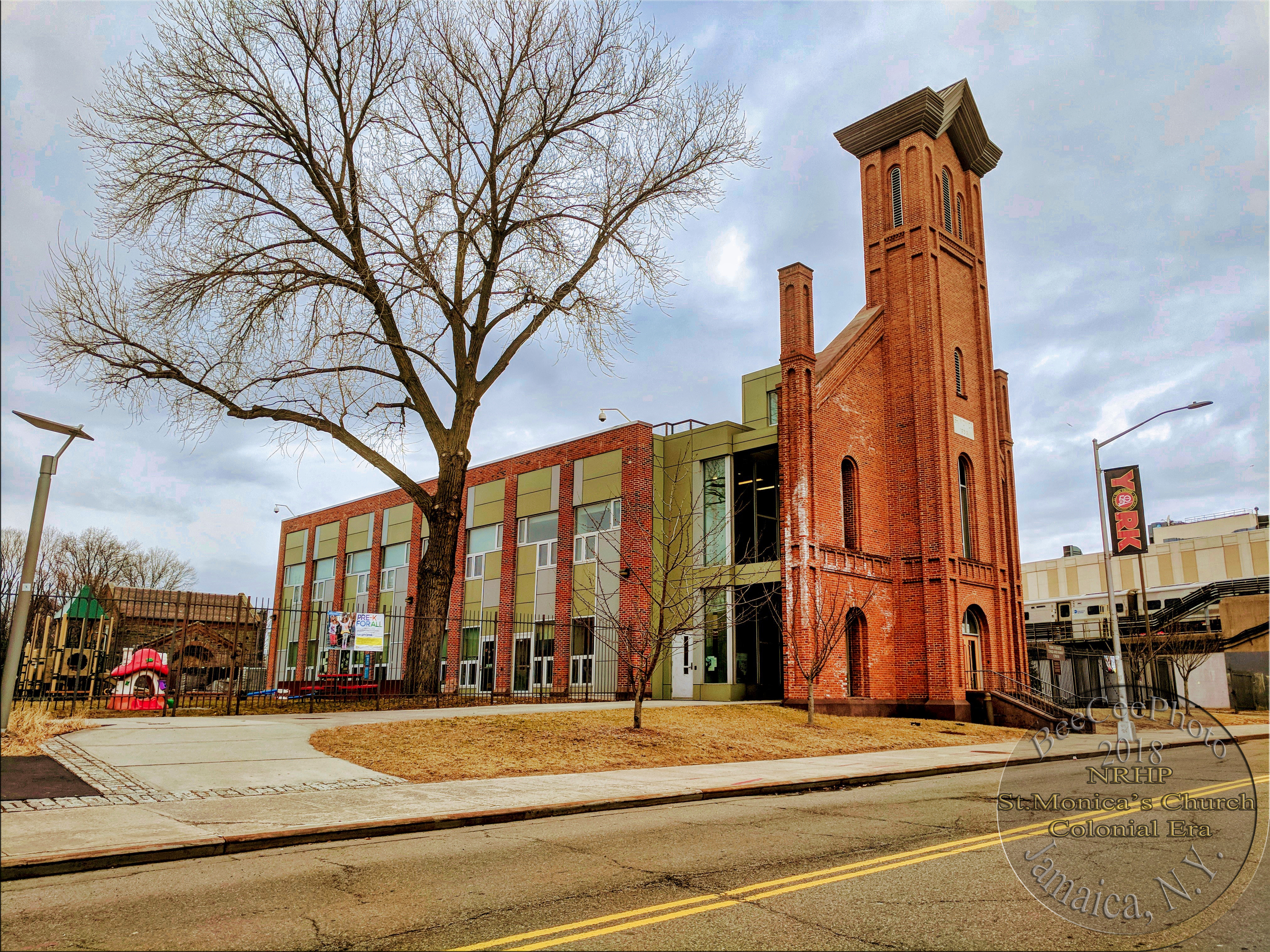 St. Monica's Church is a historic former Roman Catholic parish church in the Diocese of Brooklyn, located in Jamaica, Queens, New York.Ref#80002752 NRHP